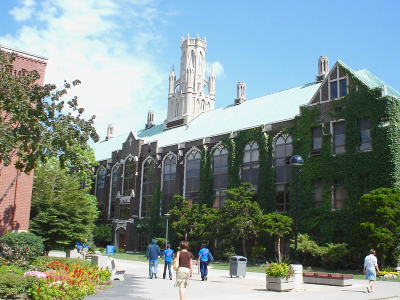 Dillon Hall was built in 1928 and sits in the centre of the University of Windsor campus. Tutorials are commonly held in Dillon Hall. Also, the universities co-op program offices are located in the basement. Building archictect is Albert Lothian (